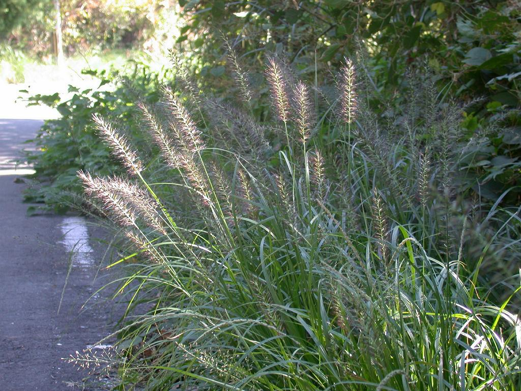 Name Pennisetum_alopecuroides (L.) Spreng.) （チカラシバ） Family Poaceae Date;2006,10;Tanabe city, Wakayama prefecture, Japan Author;Keisotyo